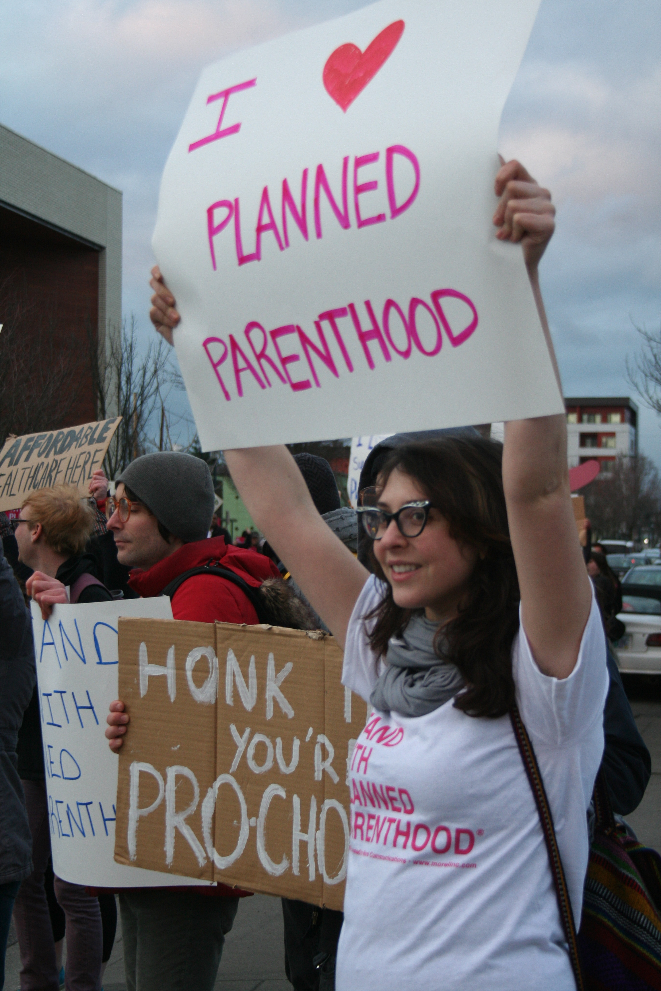 Supporters of Planned Parenthood